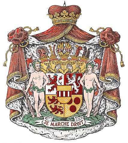 Coat of Arms of the House of Limburg Stirum